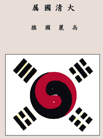 Early flag of Korea ; a redrawn version of the illustration seen in the center of image Image:Flag_of_old_Korea.jpg. The Chinese characters say "Tributary State of Great Qing(China)" and "Goryeo ensign".